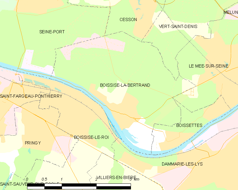 Map of French municipality Boissise-la-Bertrand